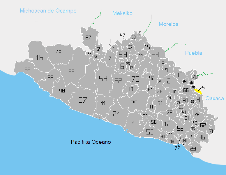 locator map